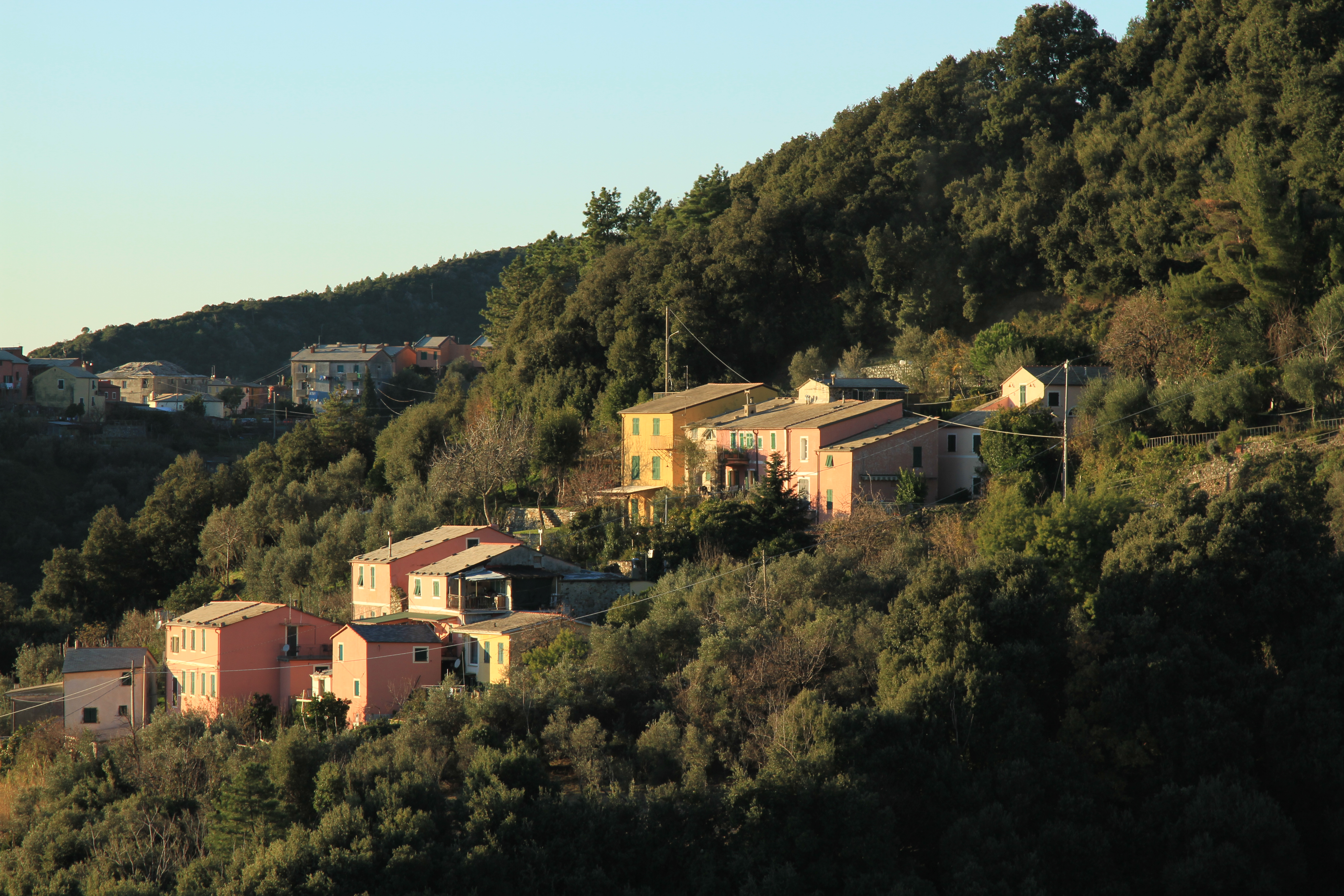 San Giorgio, Bonassola